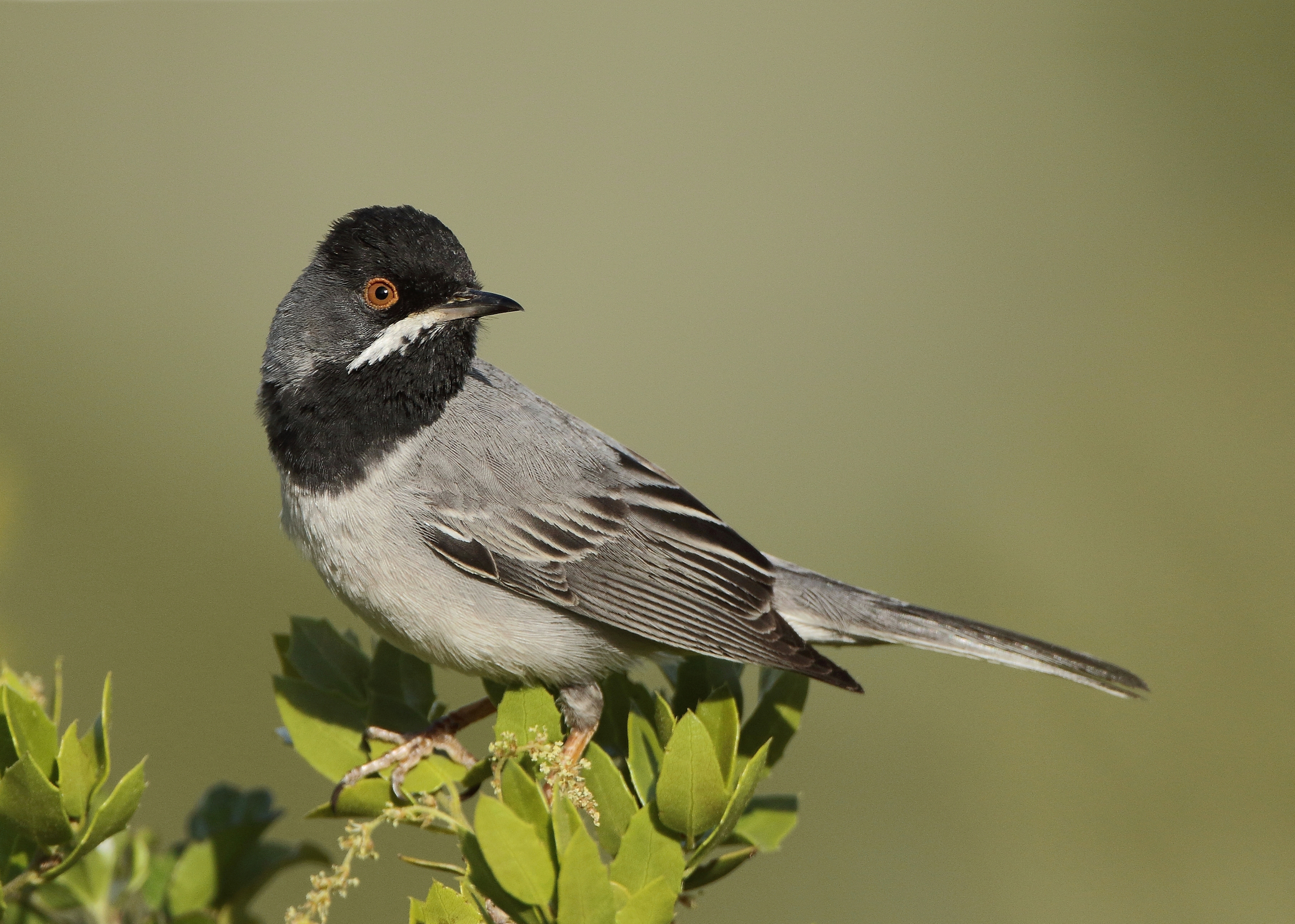 Ruppell's warbler (Sylvia ruppeli), at Hymettus, near Athens, Greece. This is a photography of Natura 2000 protected area with ID GR3000006